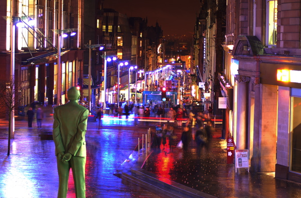 Buchanan Street again, this time with the Donald Dewar staue watching the shoppers. See where this picture was taken.